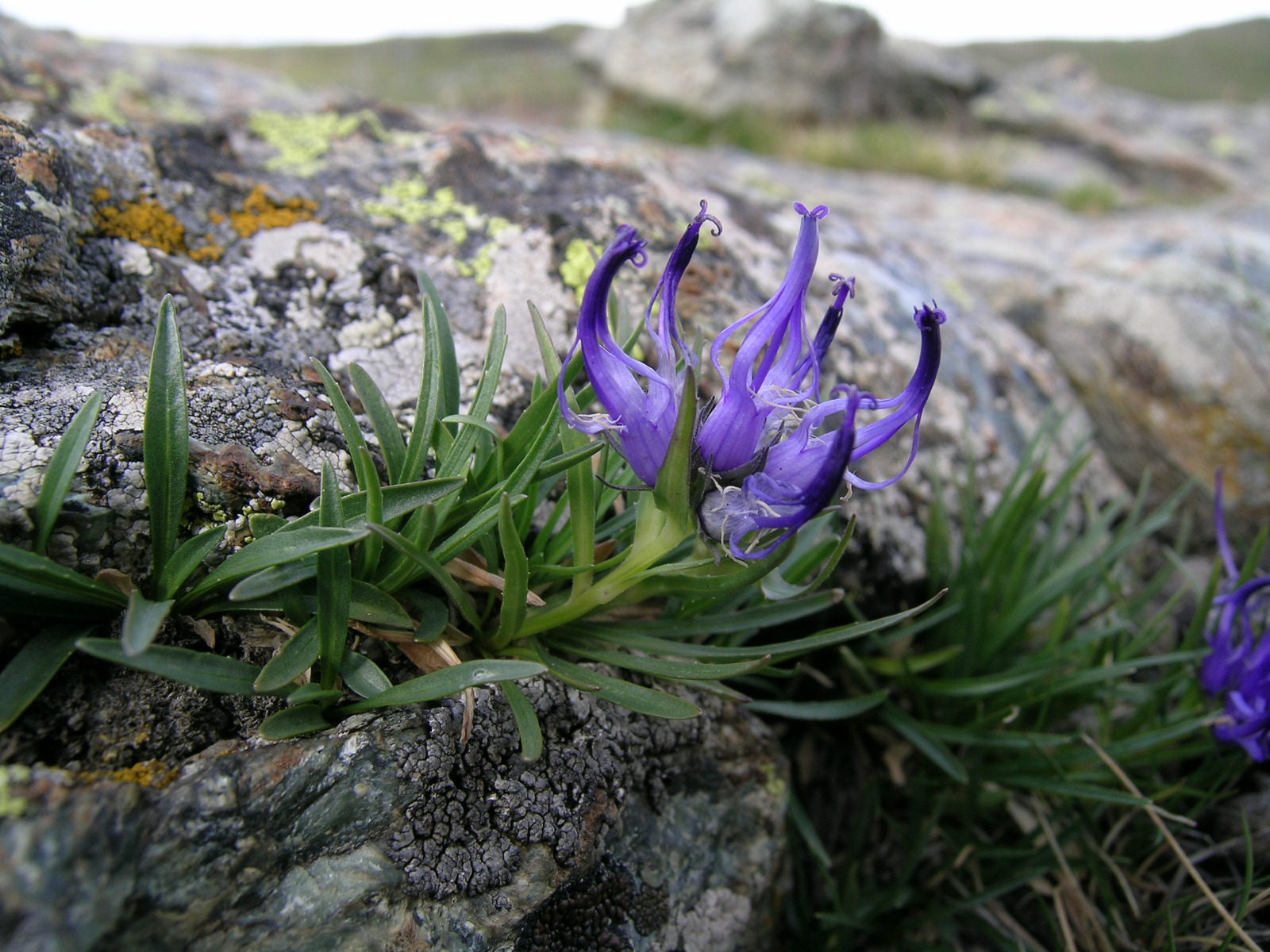 Phyteuma humile Zermatt, Gagenhaupt (Kanton Wallis, Switzerland), 2300 m Author: Roland Teuscher – own photograph Date: 1.08.06